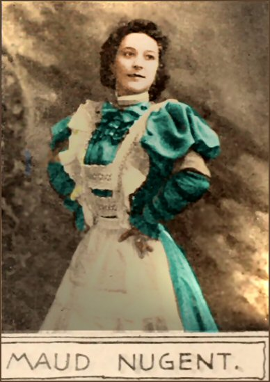 Maud / Maude Nugent ca. 1897 from a magazine ad